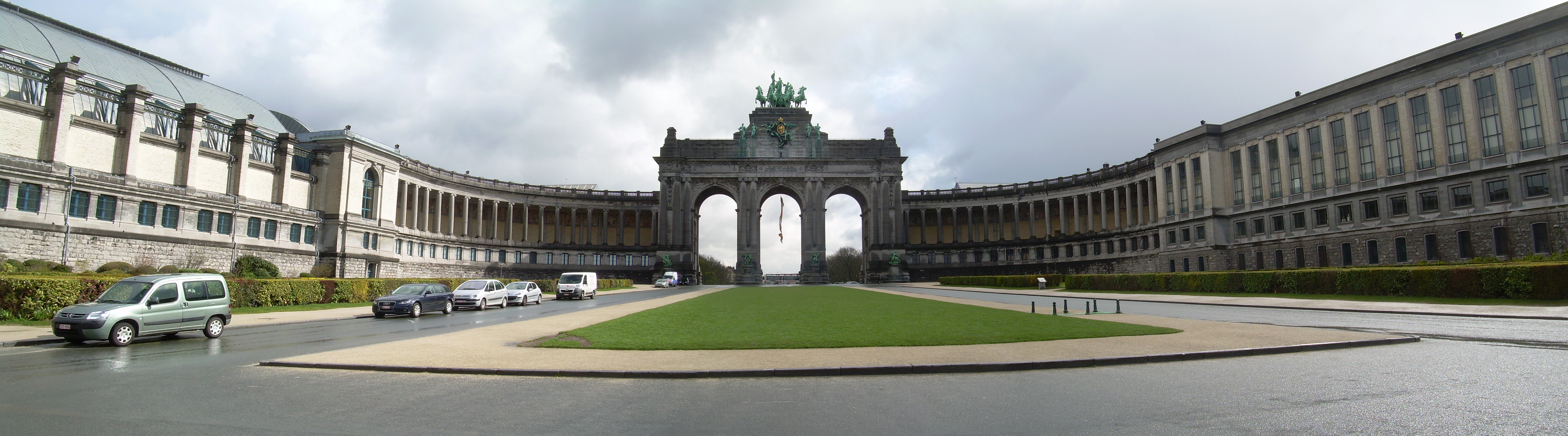 Arch of the Cinquantenaire, Brussels, Belgium.